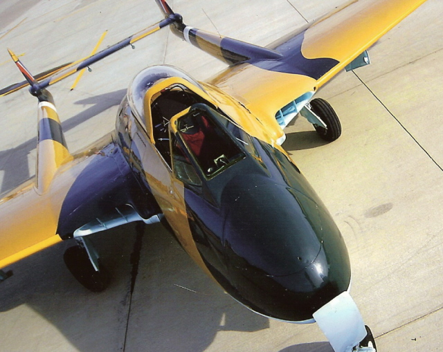 I took this picture myself. It is of my father and his Venom Jet he restored himself. I think it will be very helpful to have on my Classic Warbirds page because it demonstrates what the final results look like.